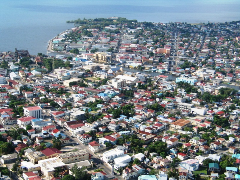 Aerial View of Belize City